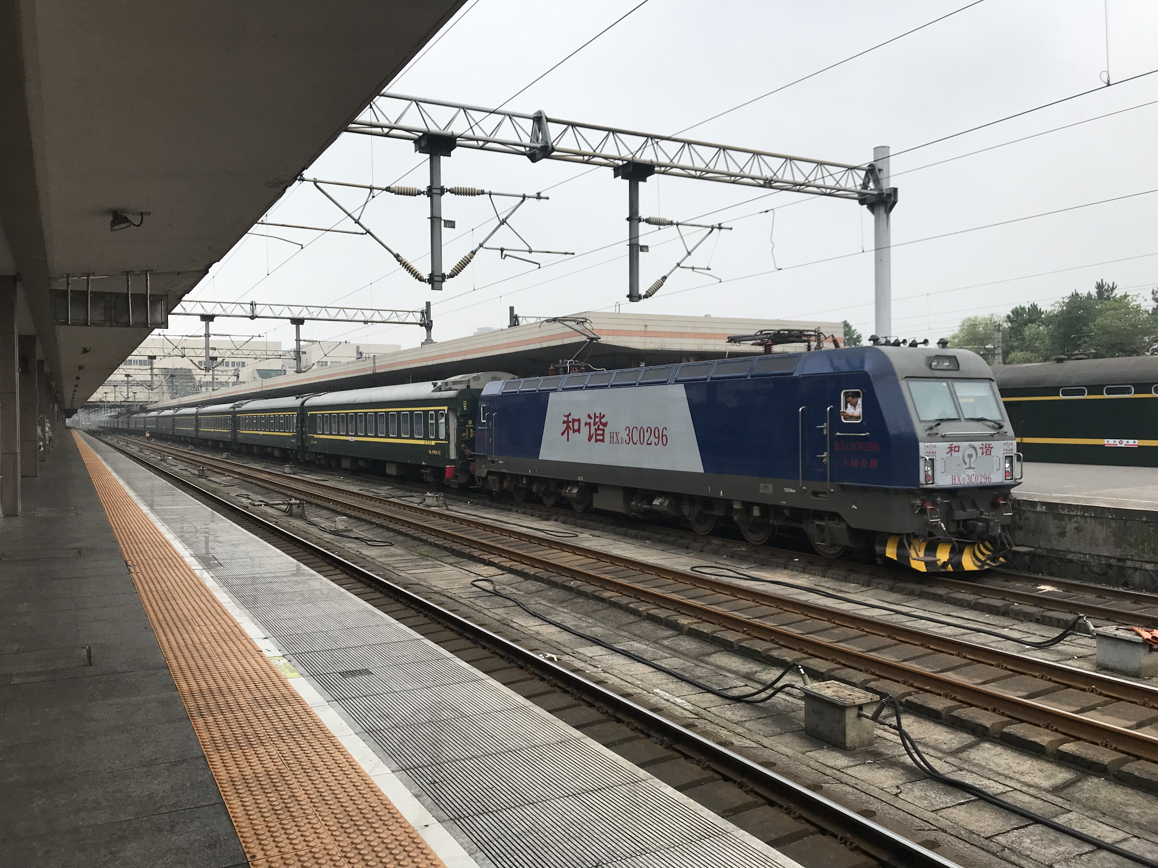 Getting bored of those HXD3Cs based in Hefei